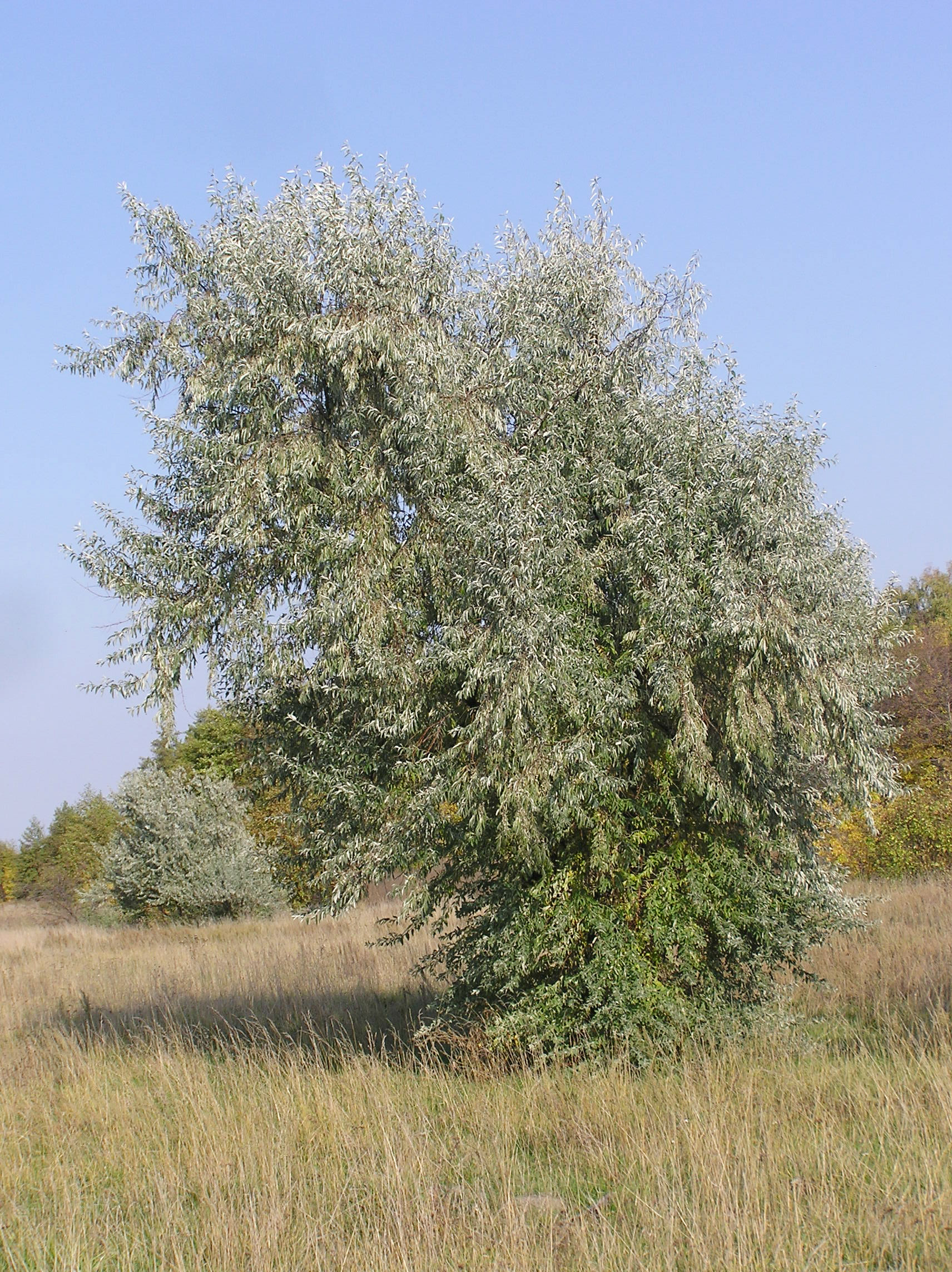 Oleaster Elaeagnus angustifolia L., mature tree with fruit. Habitat: a ravine along a creek. Tatishchevsky District, Saratov Oblast, Russia.